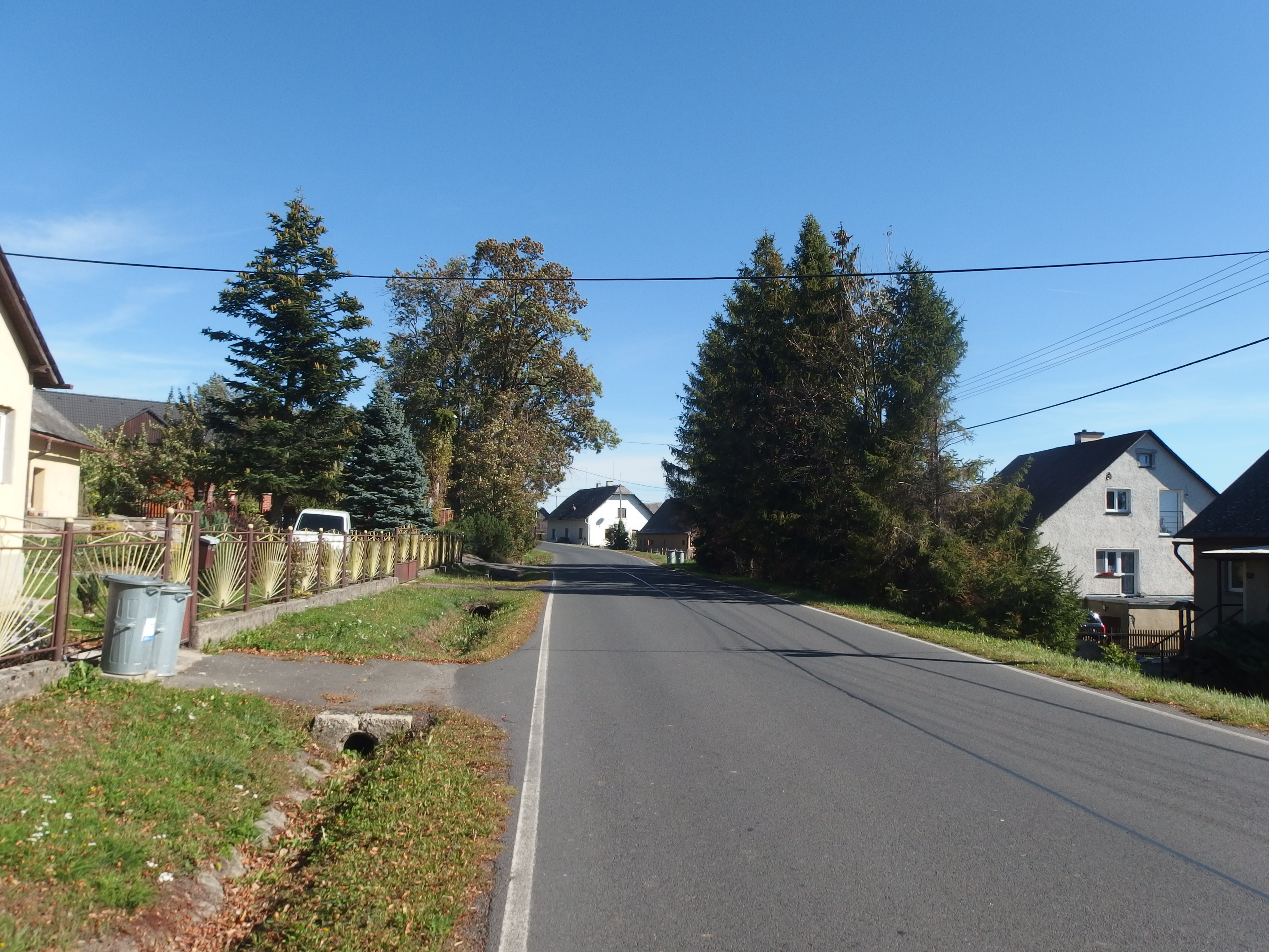 Moravskoslezský Kočov, Bruntál District, Czech Republic, part Slezský Kočov.